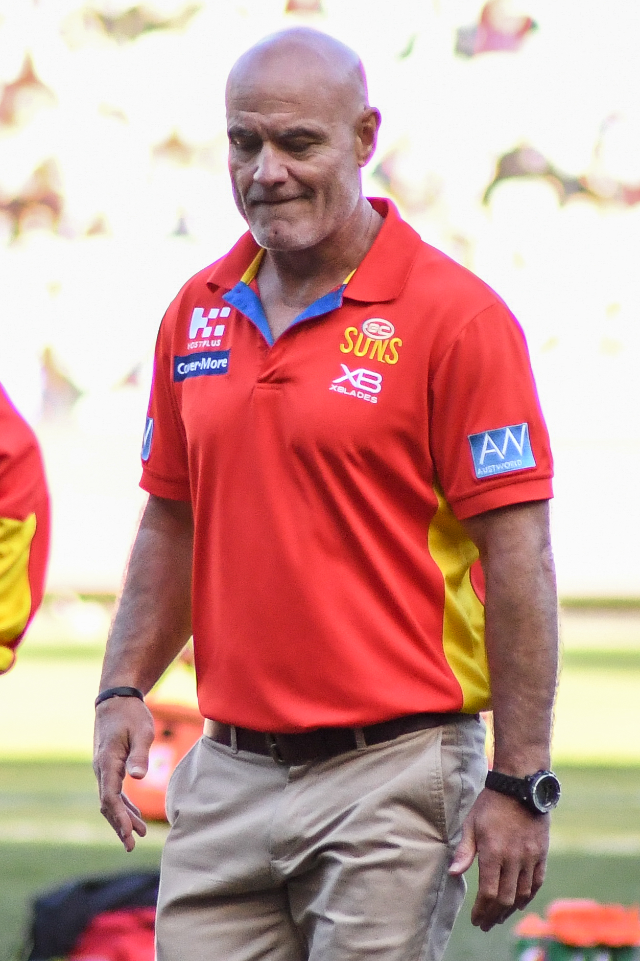 Andy Lovell of Gold Coast during the 2018 AFL round 20 match between Melbourne and Gold Coast at the Melbourne Cricket Ground on Sunday, 5 August 2018 in Melbourne, Victoria.